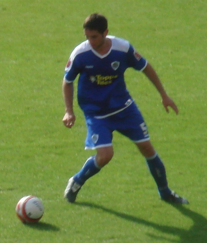 Aleksandar Tunchev. Image cropped from original at Flickr.